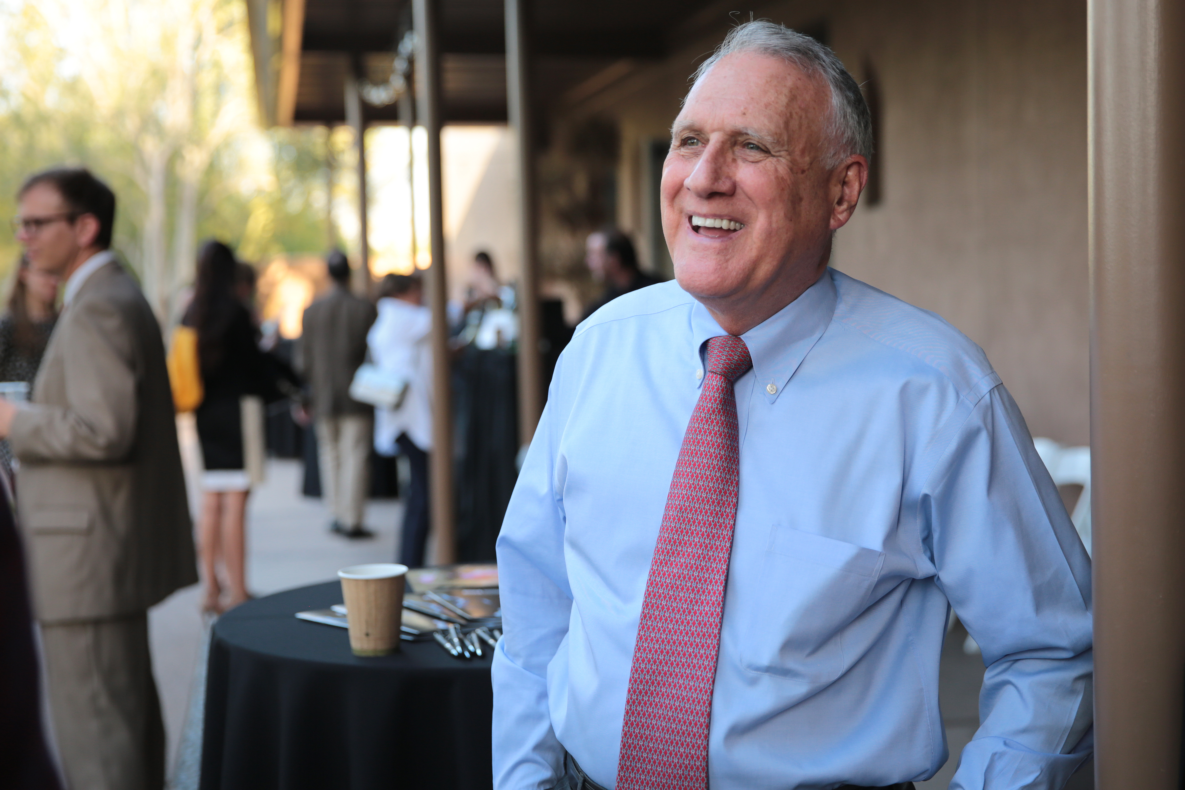 Jon Kyl speaking at an event in Phoenix, Arizona.